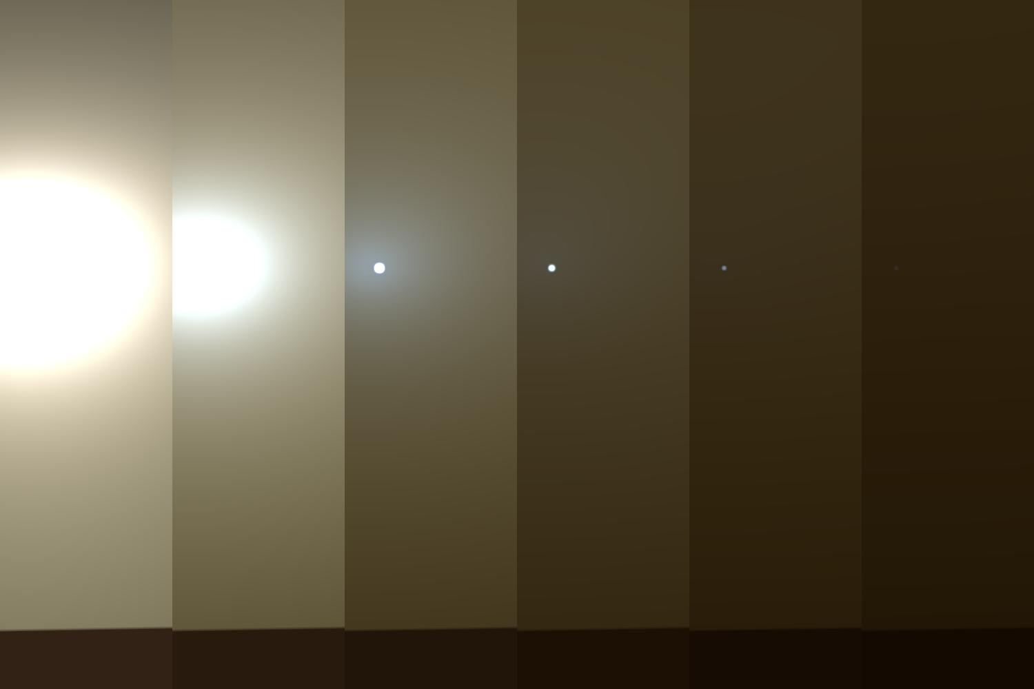 PIA22521: Shades of Martian Darkness This series of images shows simulated views of a darkening Martian sky blotting out the Sun from NASA's Opportunity rover's point of view, with the right side simulating Opportunity's current view in the global dust storm (June 2018). The left starts with a blindingly bright mid-afternoon sky, with the sun appearing bigger because of brightness. The right shows the Sun so obscured by dust it looks like a pinprick. Each frame corresponds to a tau value, or measure of opacity: 1, 3, 5, 7, 9, 11. NASA's Jet Propulsion Laboratory, a division of the California Institute of Technology in Pasadena, manages the Mars Exploration Rover Project for NASA's Science Mission Directorate, Washington. For more information about Opportunity, visit and